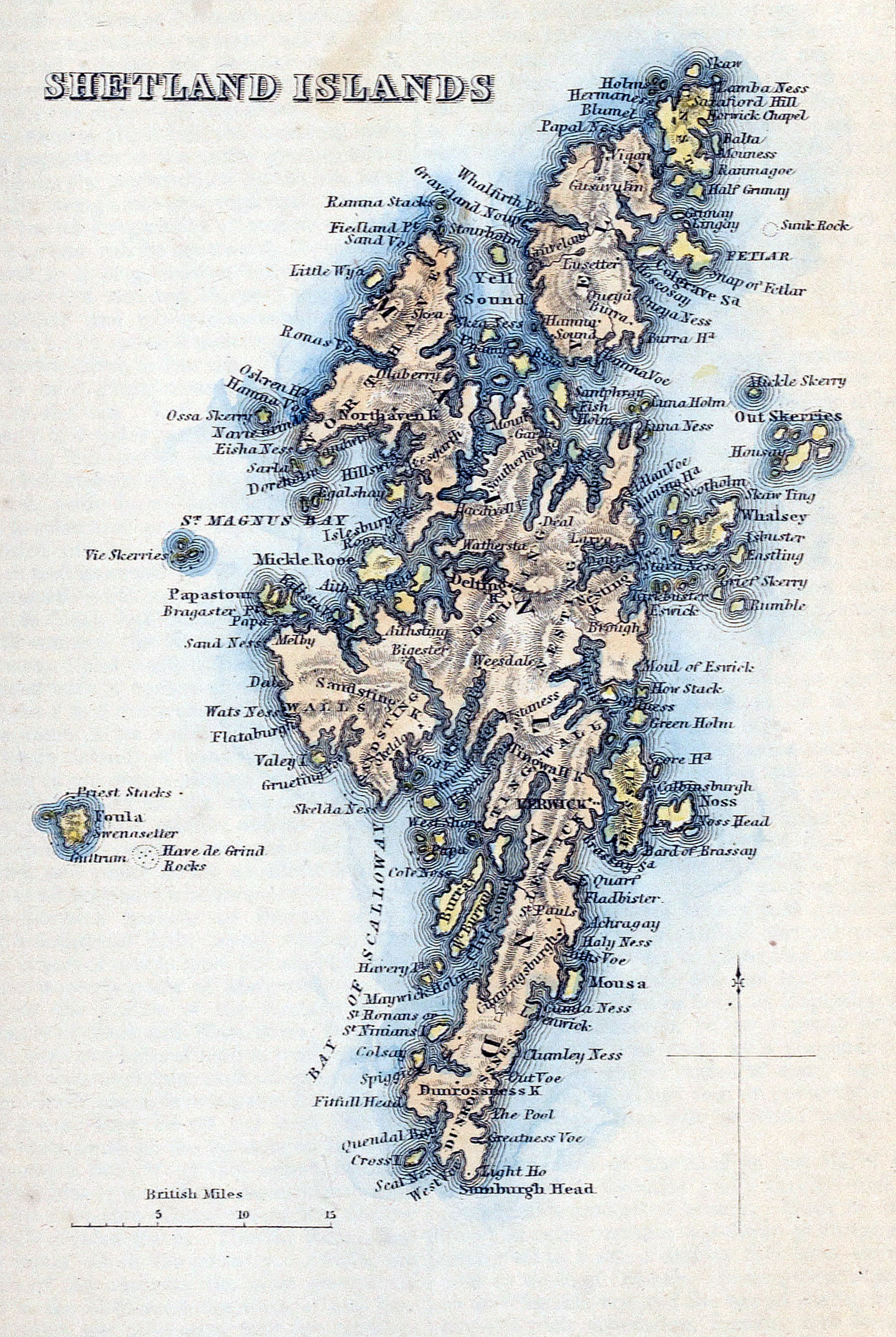 1861 SHETLAND ISLANDS. The Imperial Gazetteer of Scotland. VOL.II. Edited by Rev. John Marius Wilson